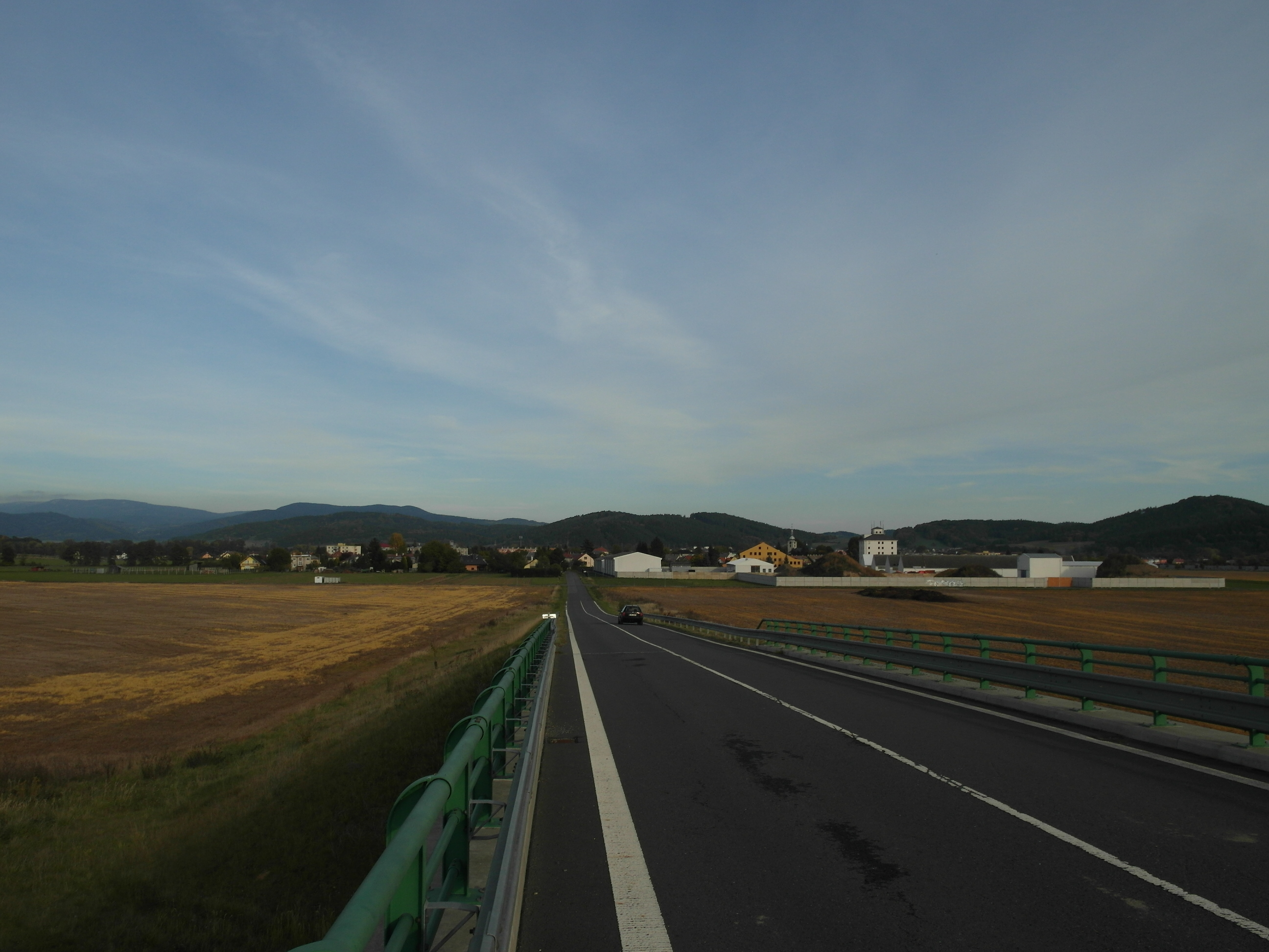 Overview of Postřelmov